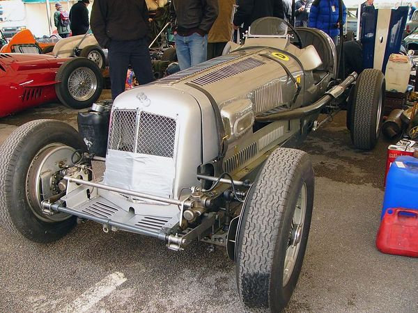 ERA racing car photographed at the Aintree Festical of Motorsport, 2004. Taken by Pete Fenelon